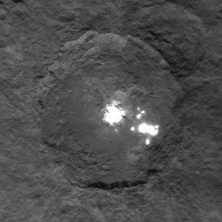 PIA19568: Bright Spots in Ceres' Second Mapping Orbit The brightest spots on dwarf planet Ceres are seen in this image taken by NASA's Dawn spacecraft on June 6, 2015. This is among the first snapshots from Dawn's second mapping orbit, which is 2,700 miles (4,400 kilometers) in altitude. The resolution is 1,400 feet (410 meters) per pixel. Scientists are still puzzled by the nature of these spots, and are considering explanations that include salt and ice. Dawn's mission is managed by JPL for NASA's Science Mission Directorate in Washington. Dawn is a project of the directorate's Discovery Program, managed by NASA's Marshall Space Flight Center in Huntsville, Alabama. The University of California, Los Angeles, is responsible for overall Dawn mission science. Orbital ATK, Inc., in Dulles, Virginia, designed and built the spacecraft. The German Aerospace Center, the Max Planck Institute for Solar System Research, the Italian Space Agency and the Italian National Astrophysical Institute are international partners on the mission team. For a complete list of acknowledgments, For more information about the Dawn mission, visit